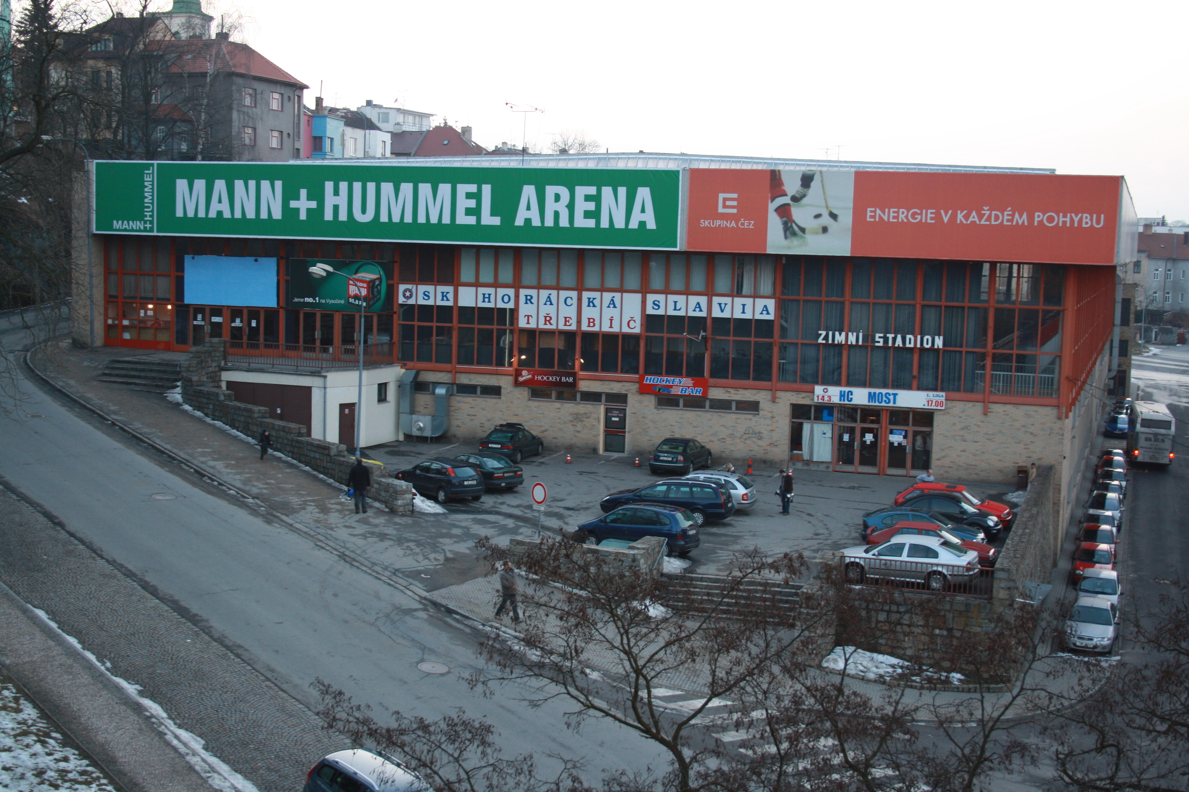 Mann+Hummel Arena ice hockey venue in Třebíč, Czech Republic.